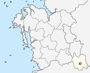 Map of Geumsan County in South Korea